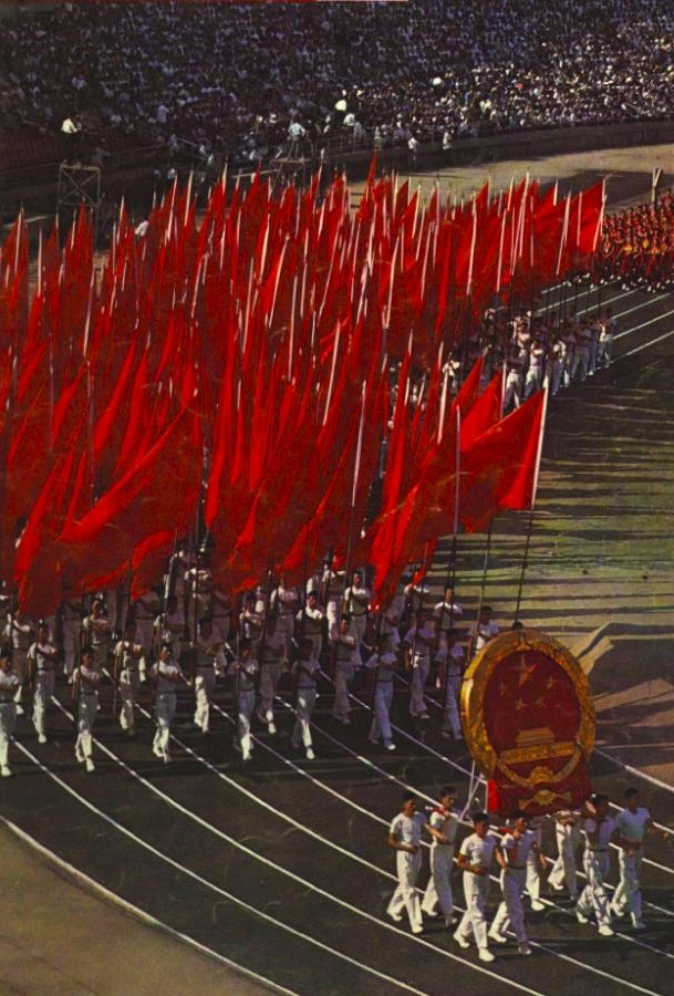 1965-12 1965年全运会